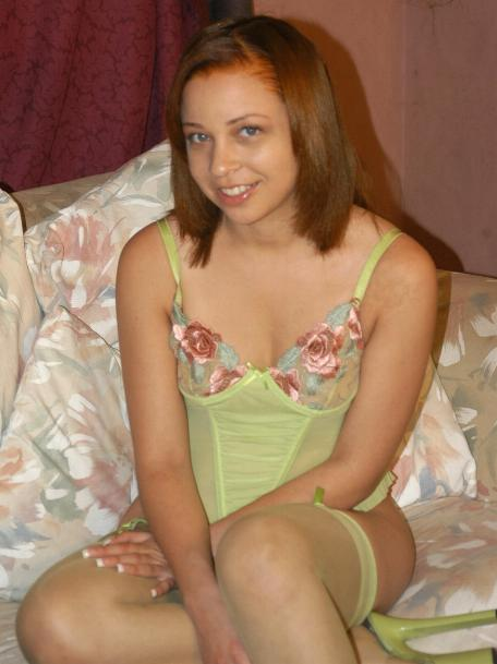 March 20, 2007: Shoots